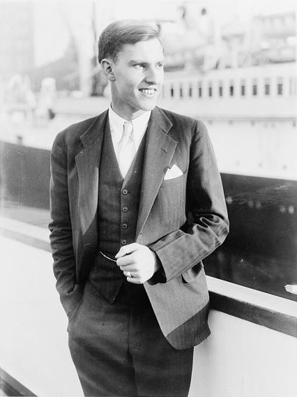 Photograph shows Paul A. Siple, three-quarter length portrait, facing right, wearing suit, standing aboard ship.